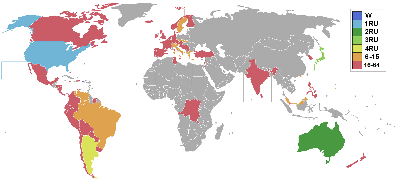 Miss Universe 1970 competing nations and territories.